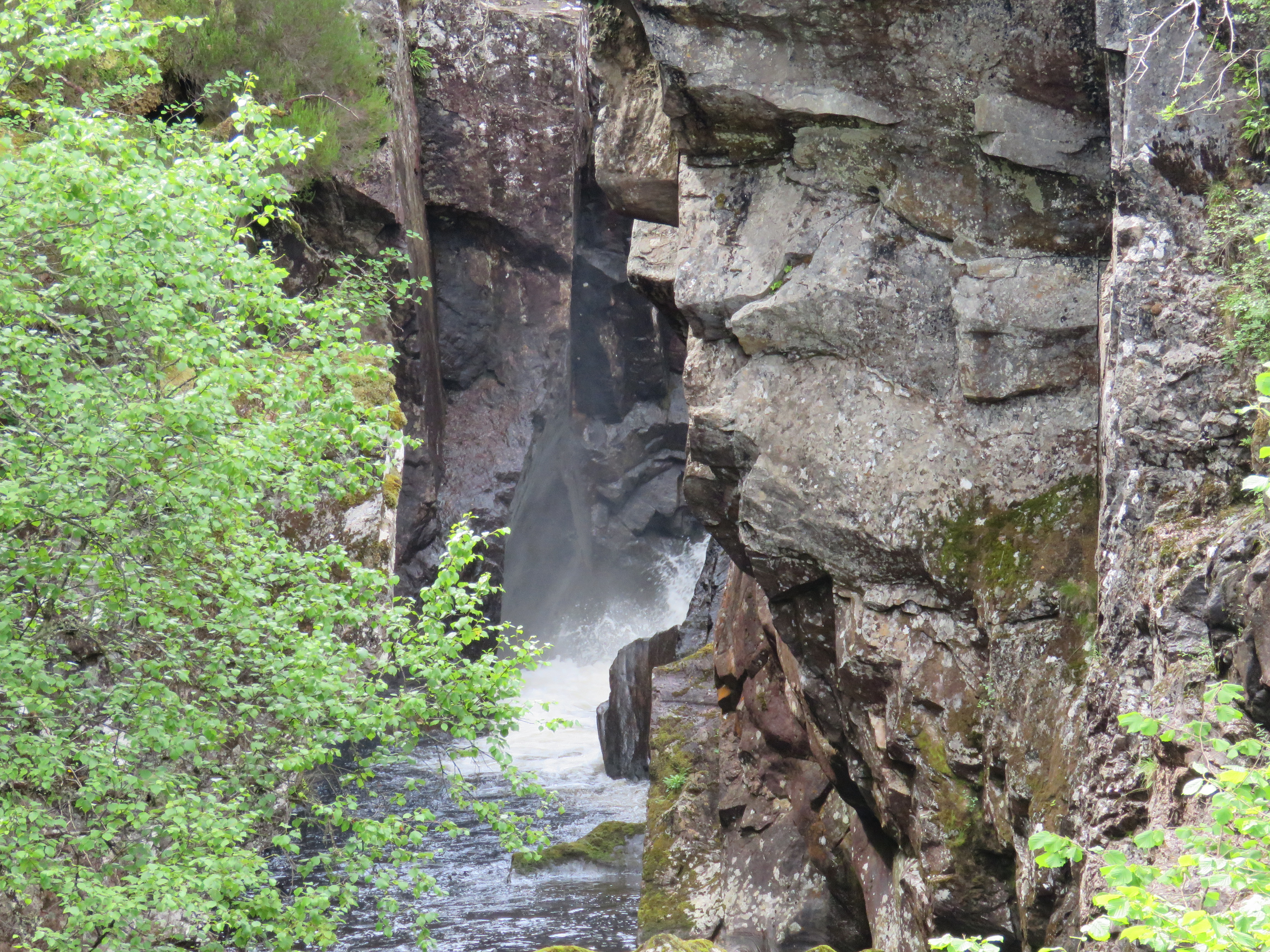 Dog Falls, Glen Affric, Scotland